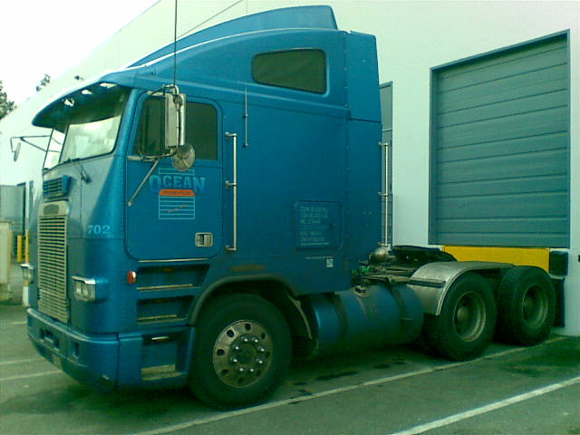 Freightliner COE on at Ocean Transport. Not a common sight to see a cabover.